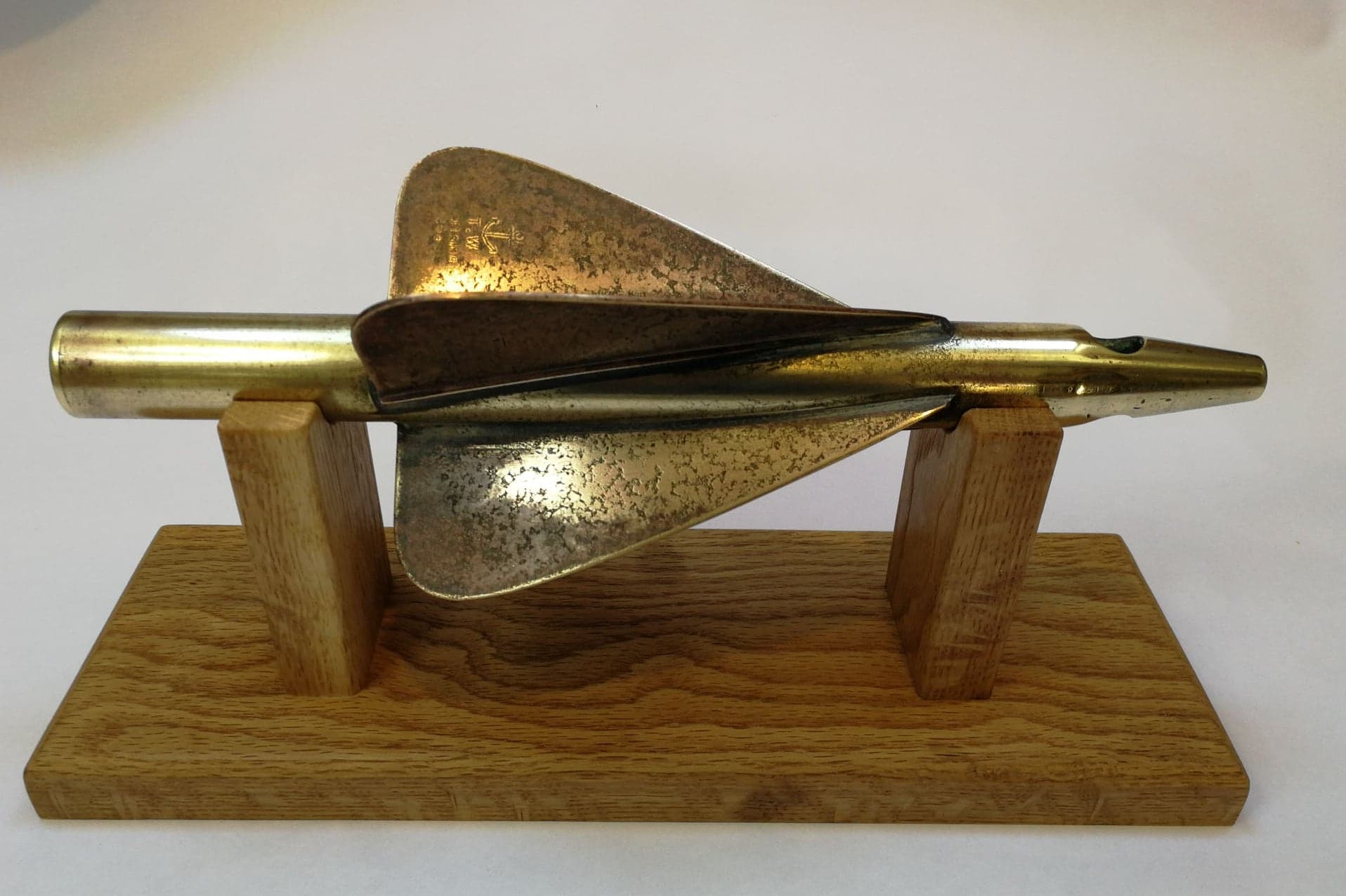 The Thos Walker & Son logo can be seen on one of the fins to the rotator.